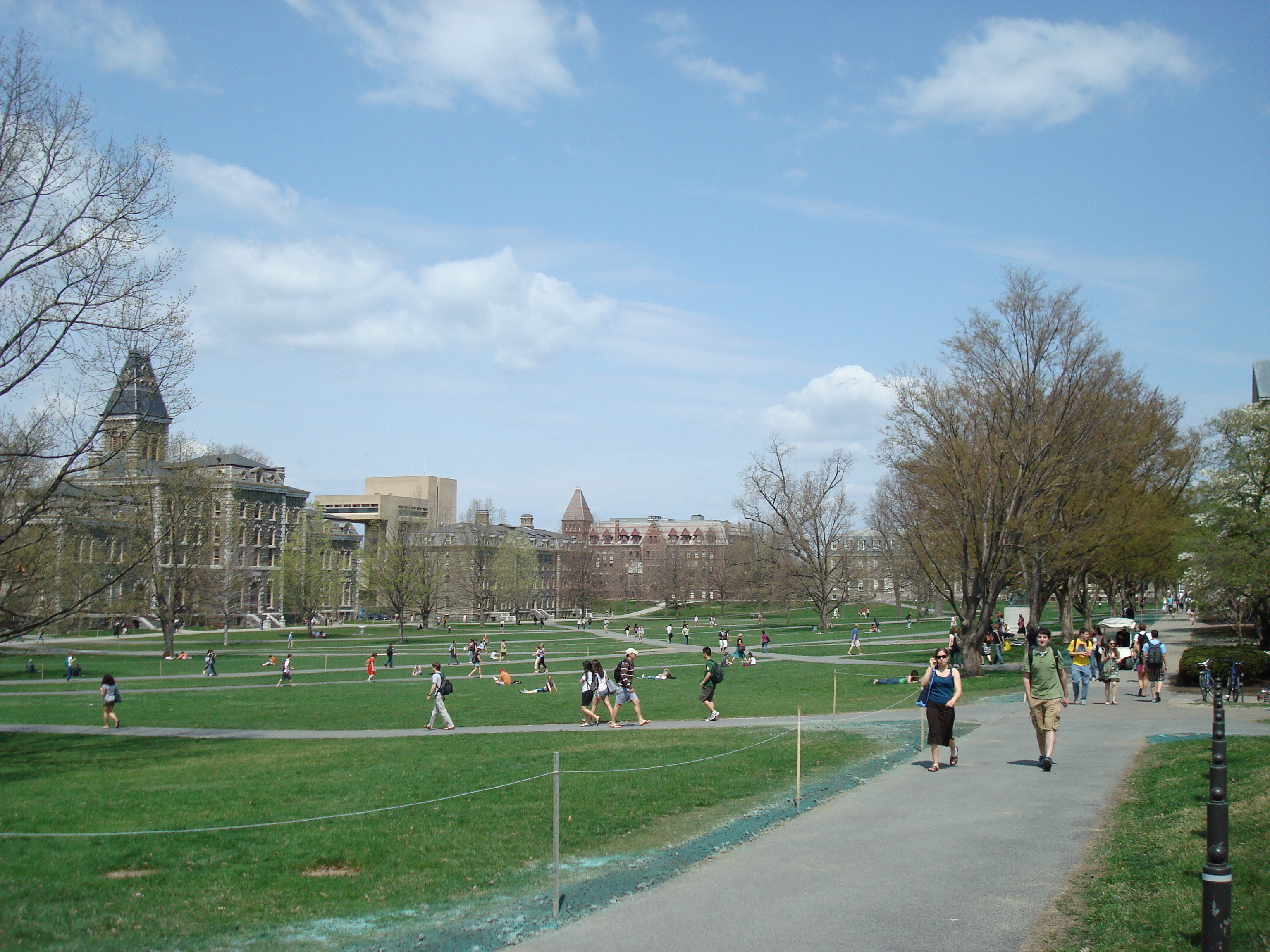 Cornell University's Arts and Sciences Quadrangle ("Arts Quad") on a sunny spring day. The buildings pictured are (from left to right) McGraw Hall, Herbert F. Johnson Museum of Art, White Hall, Olive Tjaden Hall, Sibley Hall.